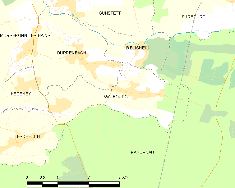 Map of French municipality